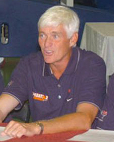 Camp Arifjan, KW - NCAA coach Bobby Cremins.